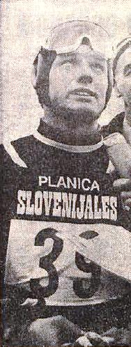 Peter Štefančič (1947-), Slovene ski jumper